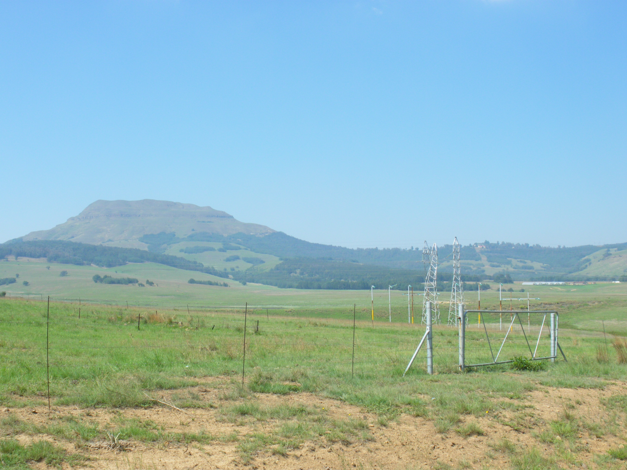 Majuba Hill seen from Laing's Nek, Natal, South Africa